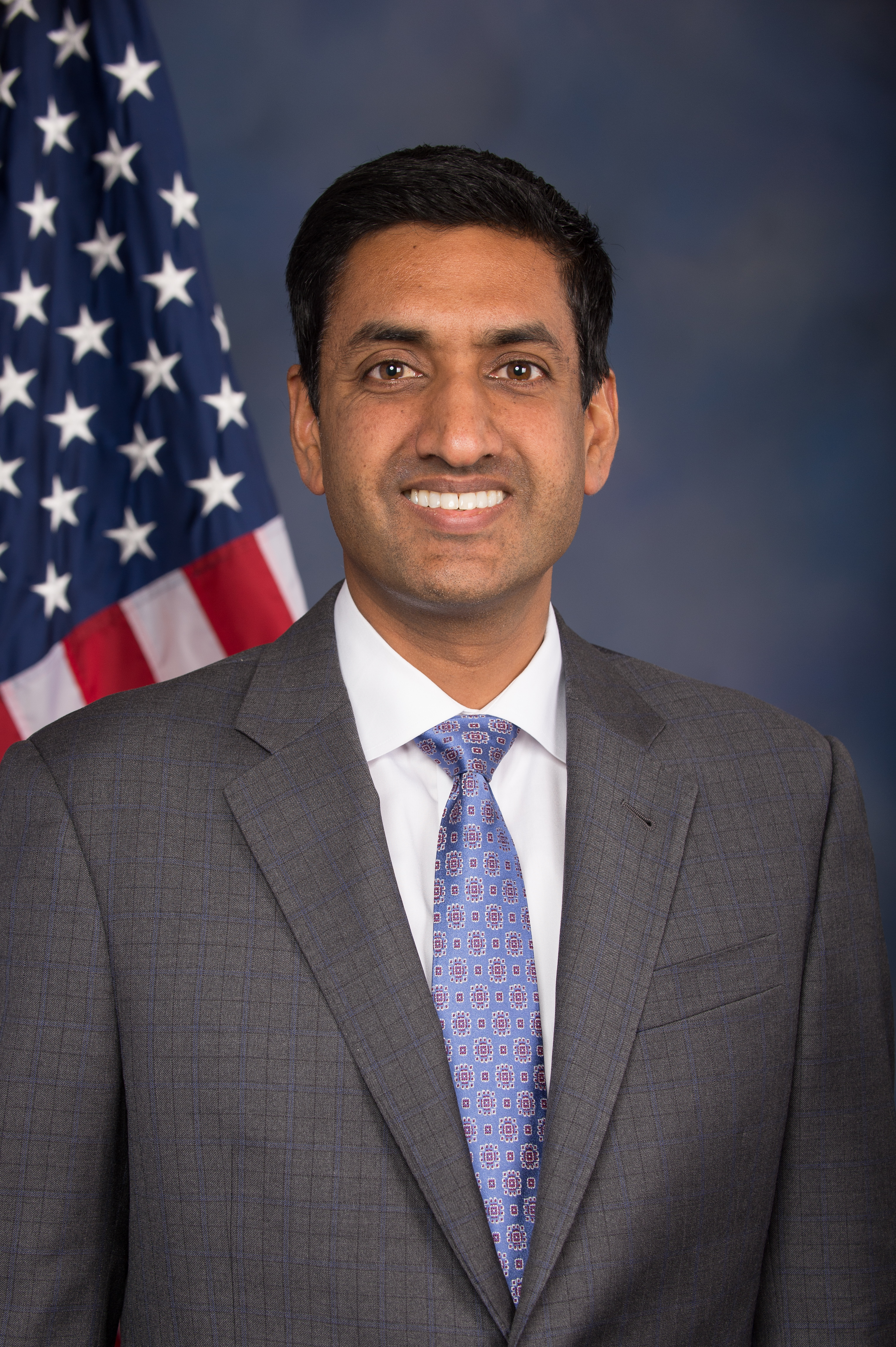 Official portrait of U.S. Congressman Ro Khanna